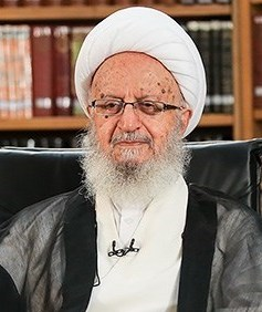 Naser Makarem Shirazi in Qom, Iran.